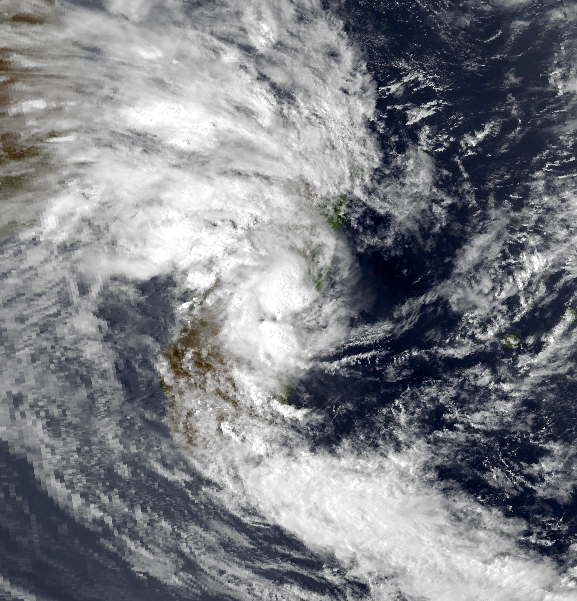 Tropical Storm Domoina over Madagascar on January 22, 1984.